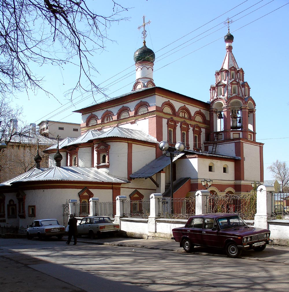 Church in former Khitrov Market, 4/6 Khitrovsky Lane, Moscow, Russia.